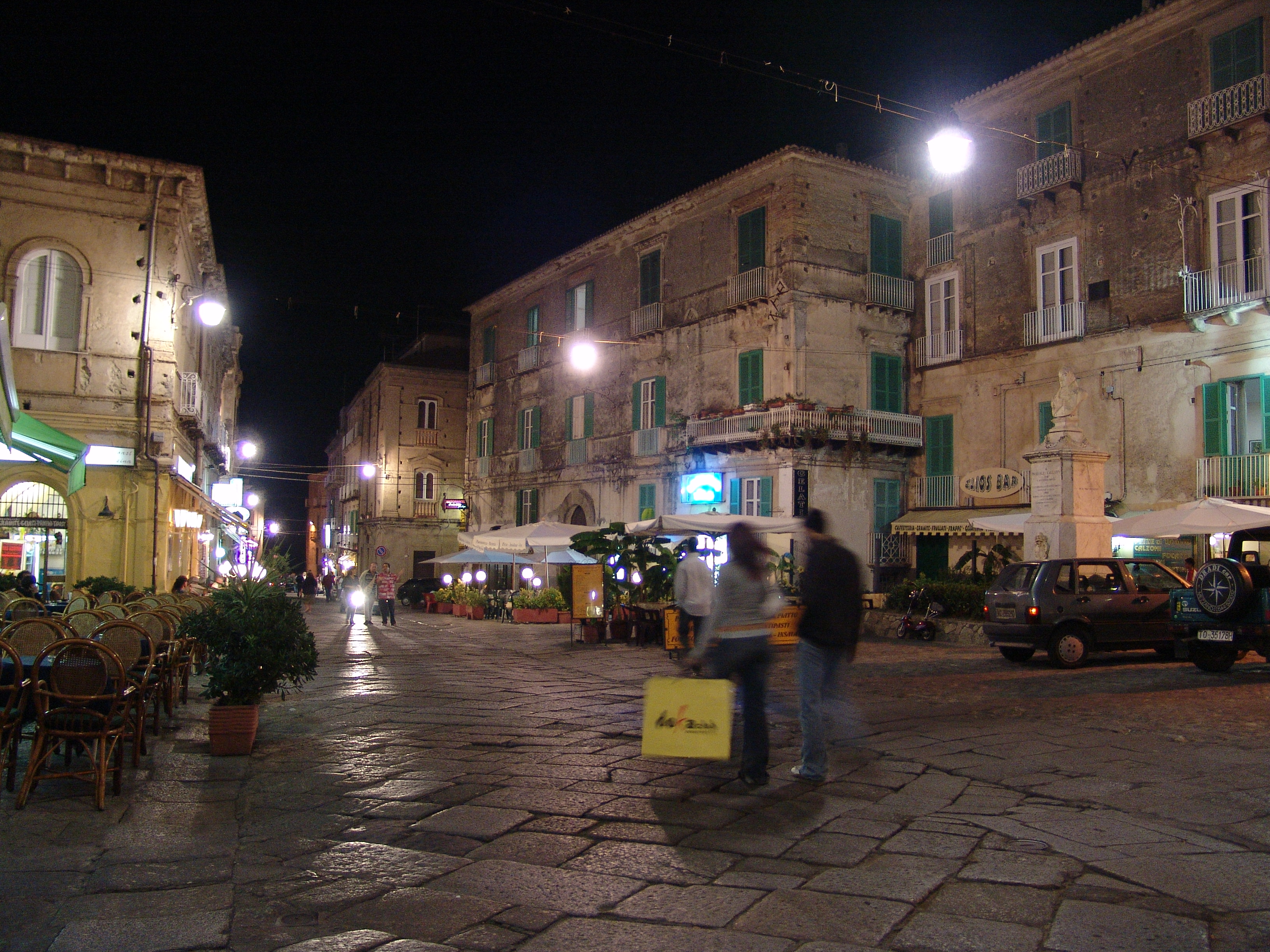 Tropea